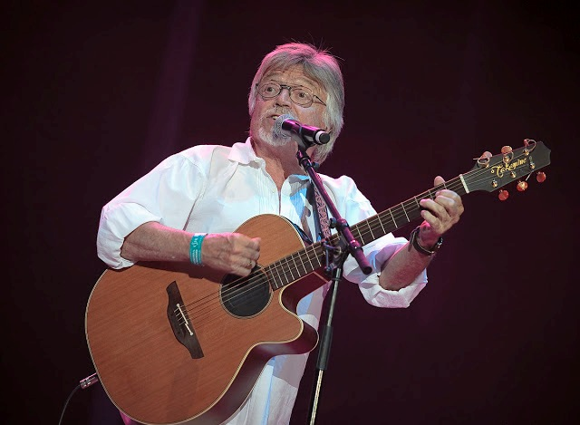 Levente Szörényi.